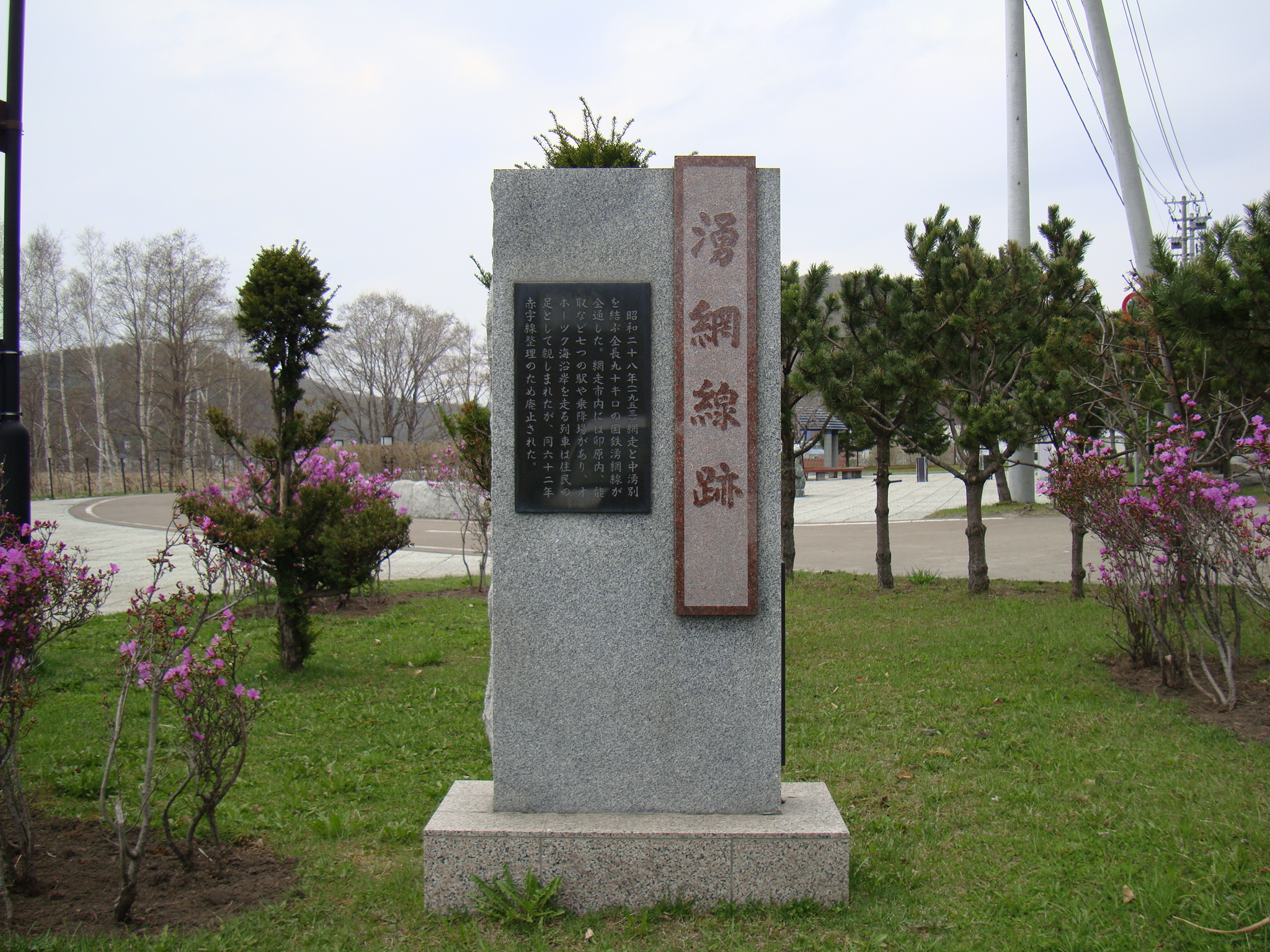 Yūmō Line removal trace on Abashiri.